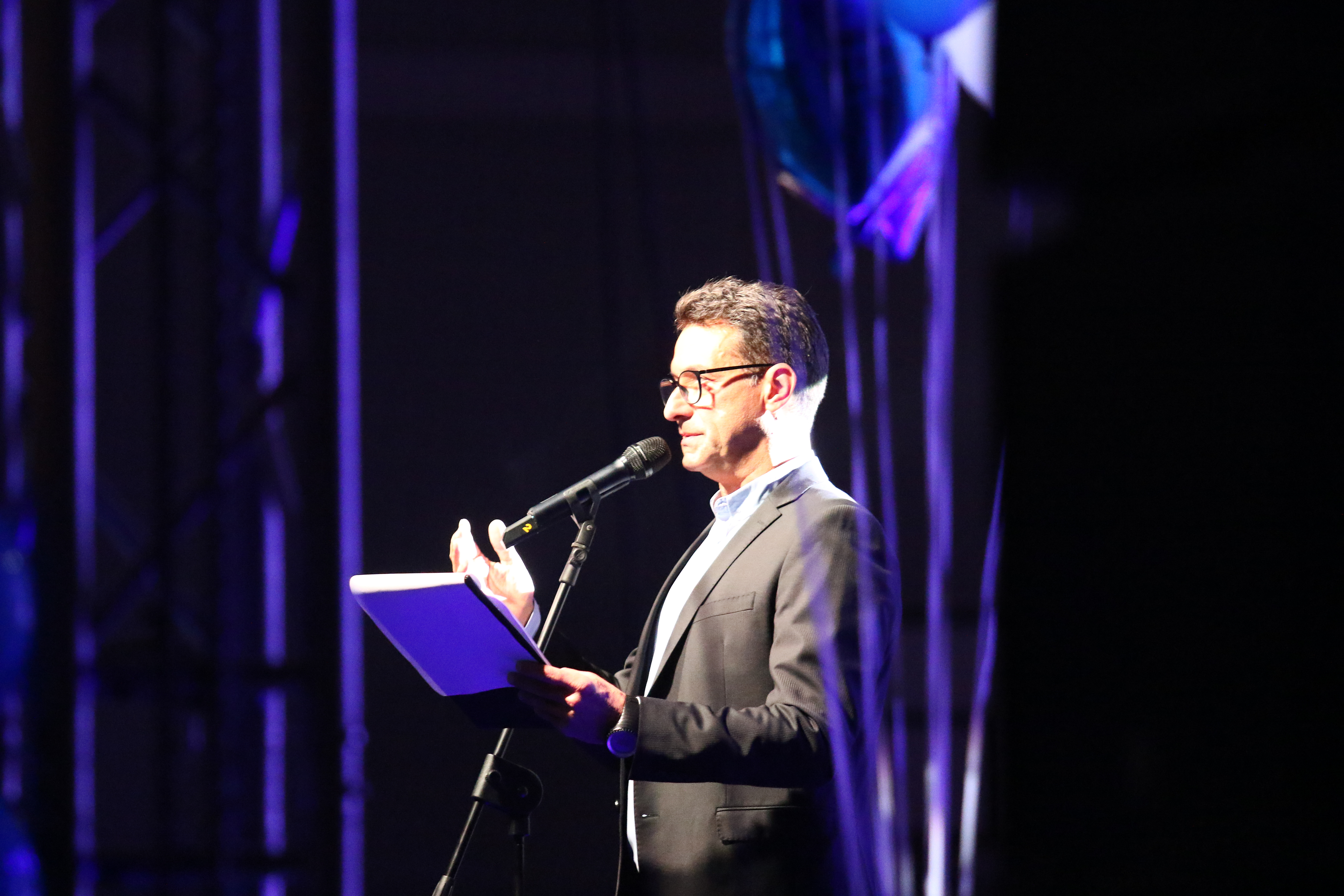 Bulgarian singer, actor and showman Kamen Vodenicharov